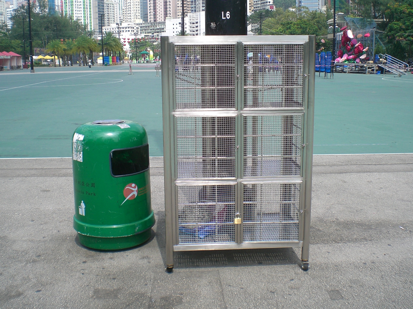 維多利亞公園